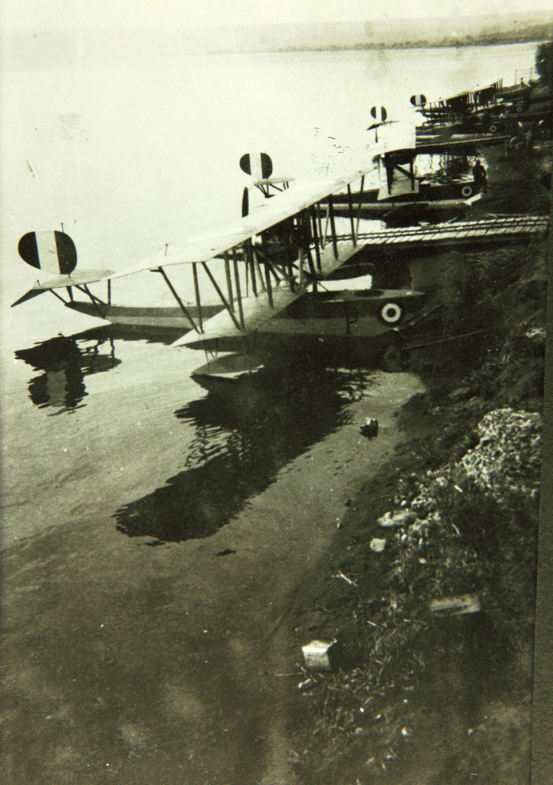 Italian-built and operated FBA Type H flying boats